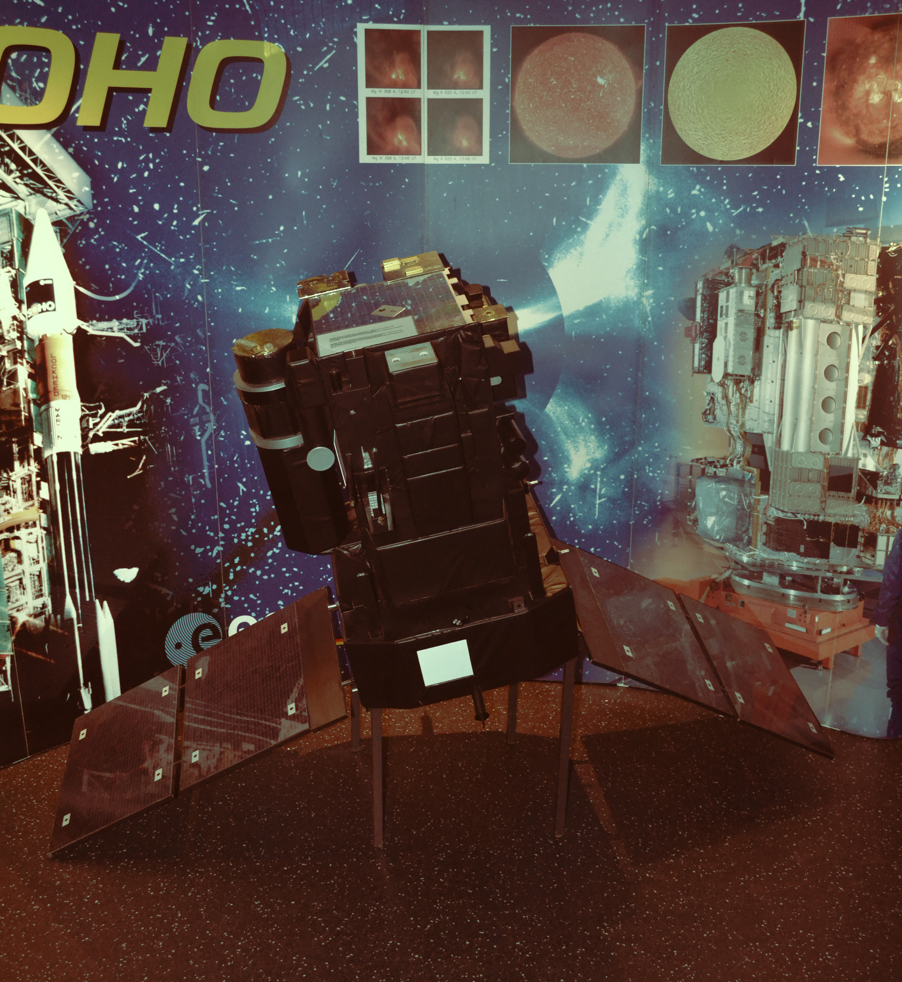 Scale model of the Solar and Heliospheric Observatory (SOHO) spacecraft at the Euro Space Center in Belgium